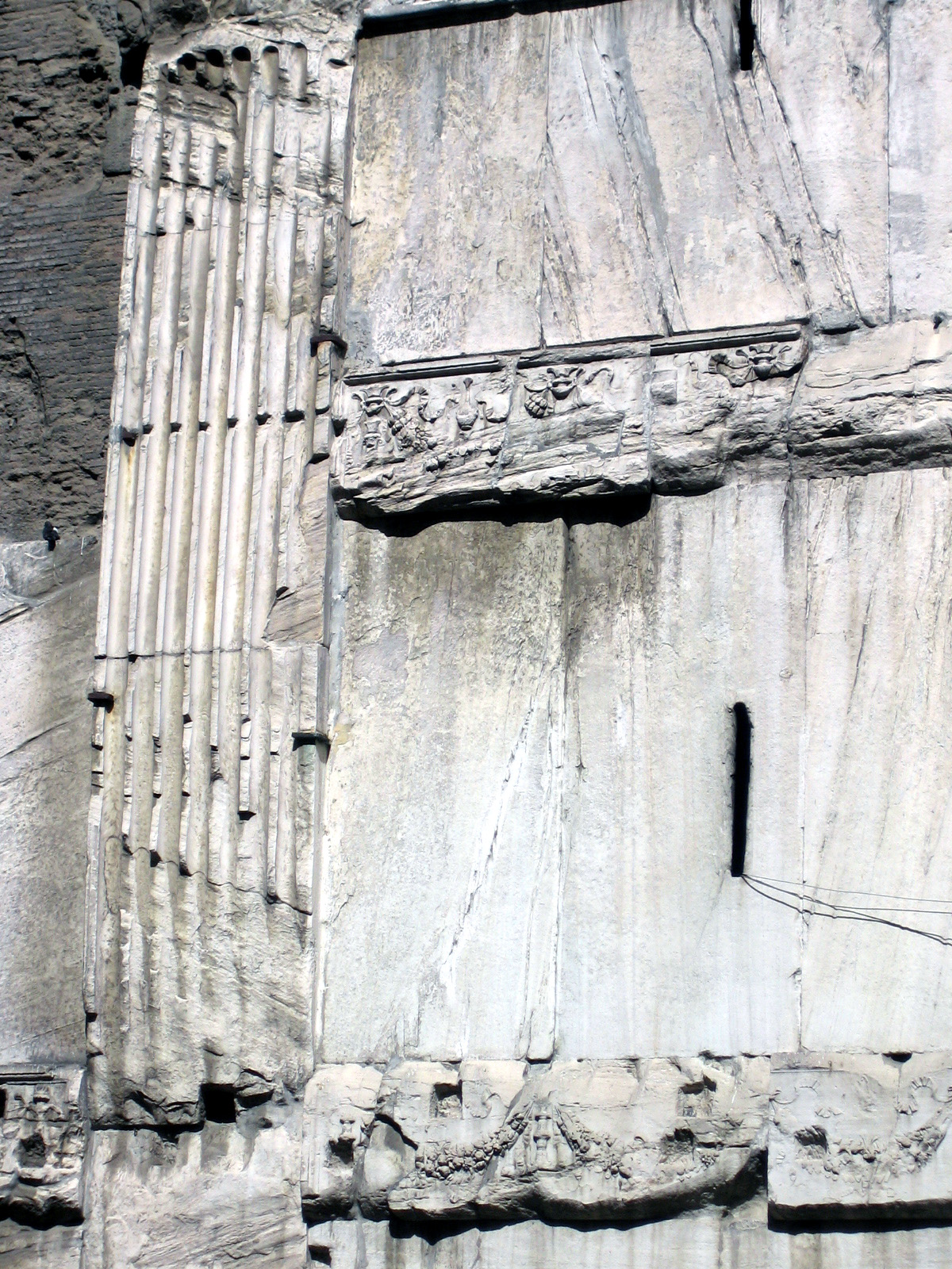 Pantheon, carving detail, porch side.